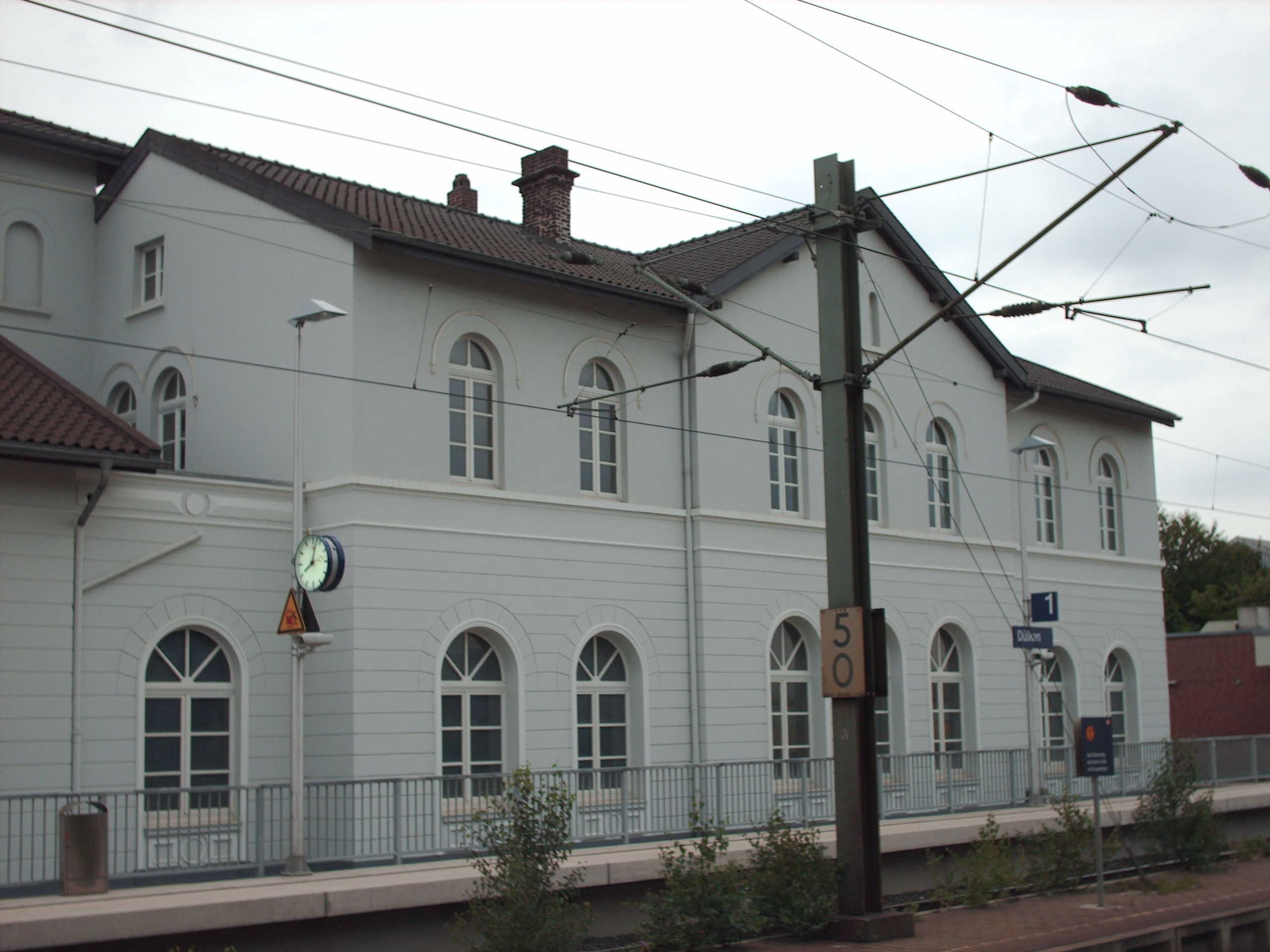 Dülken station, Viersen, Germany check usage